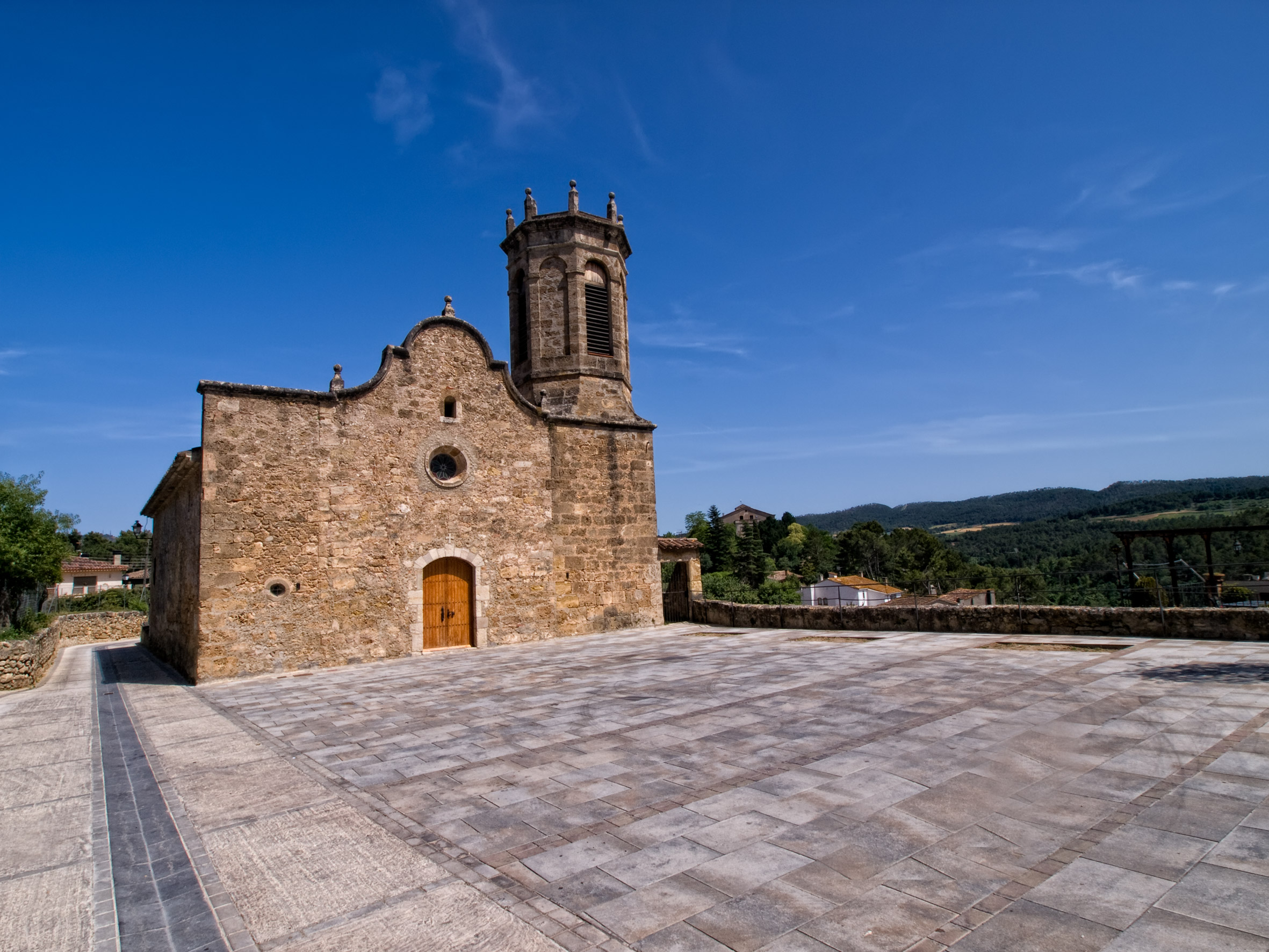 St John Church of Torre de Claramunt (Catalonia, Spain)